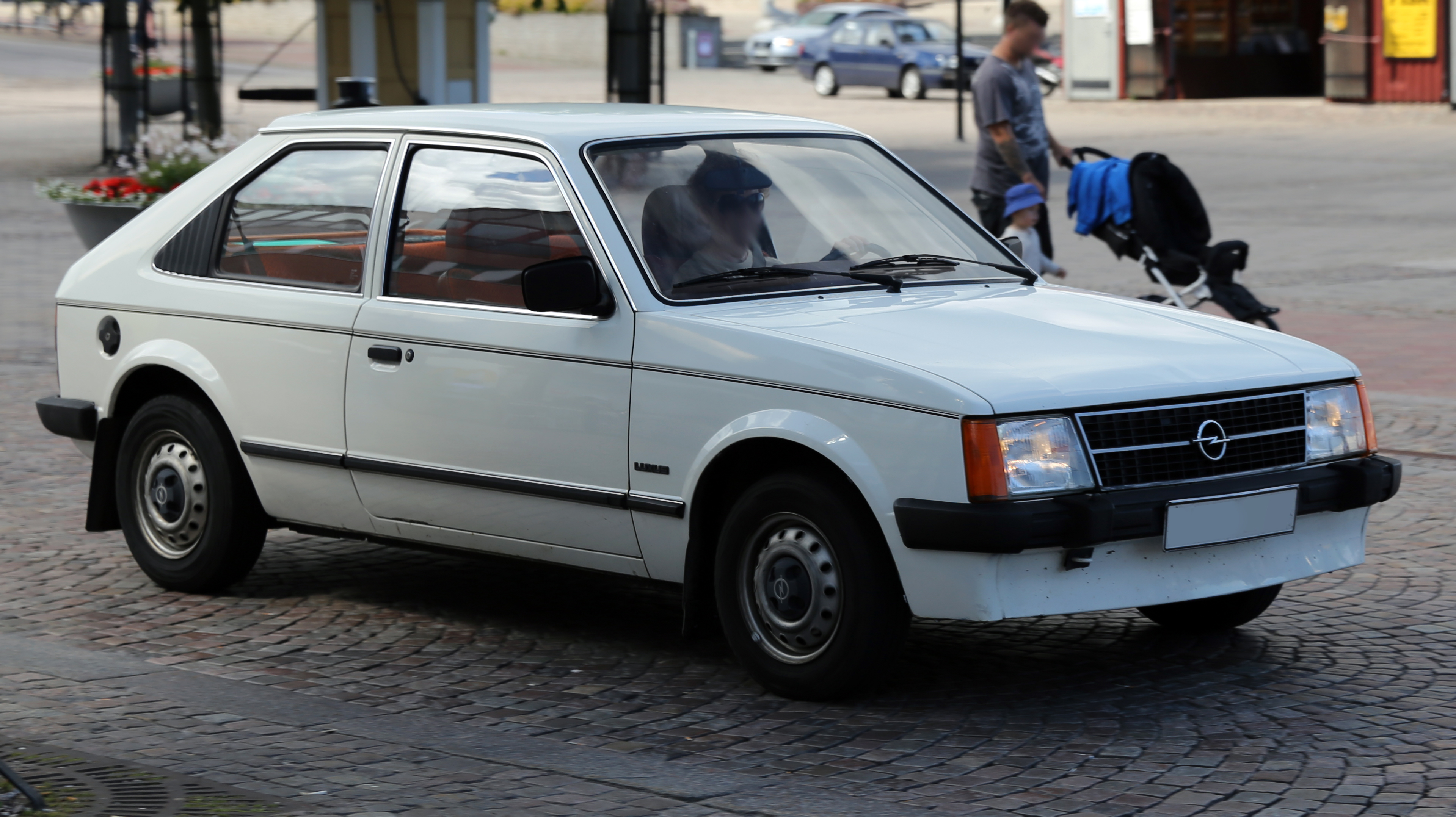 1983 Opel Kadett 1.3 DL Luxus 3-door. Model code 043294, I think that the "29" portion refers to the Sweden/Switzerland-specific 68PS version of the 1.3 OHC engine. "43" means three-door body and Luxus equipment, the last 4 is a bit of a mystery.